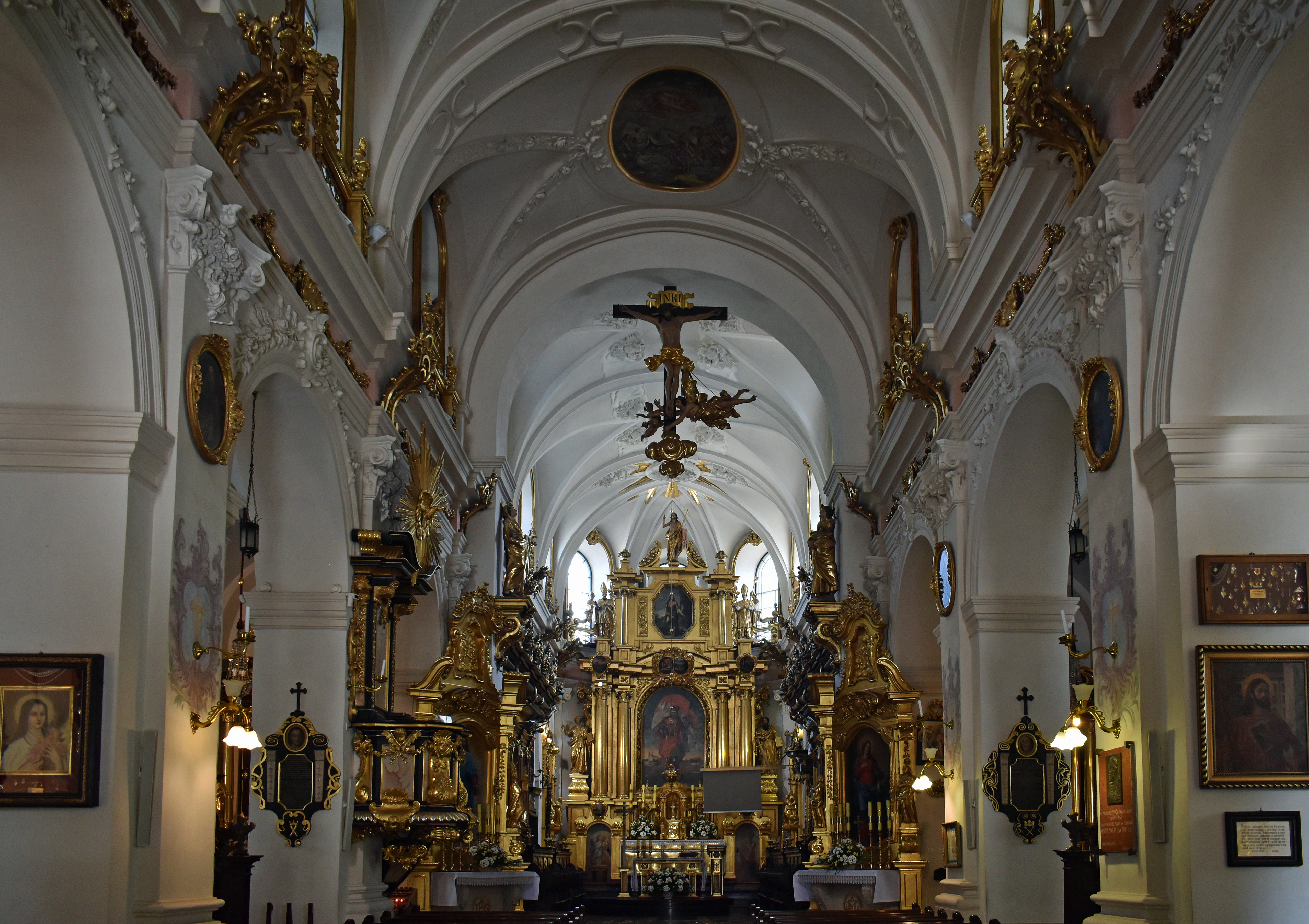 Church of St Florian (interior), 1 Warszawska street, Krakow, Poland